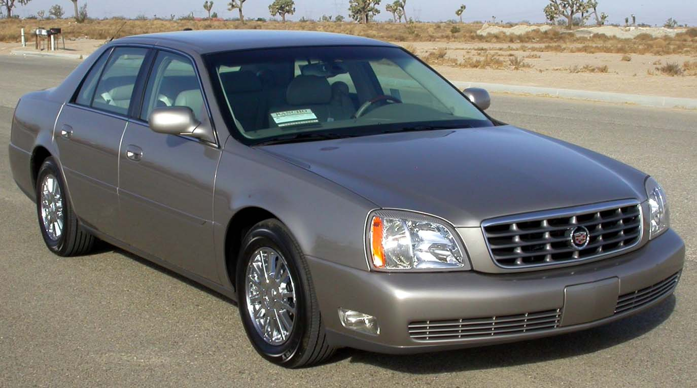 2004 Cadillac Deville photographed in USA.